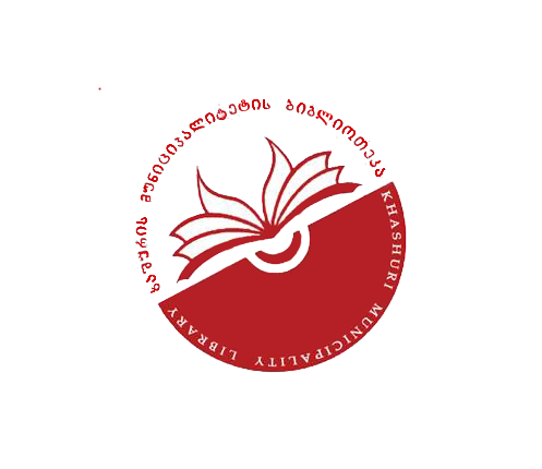 Khashuri Municipality Library